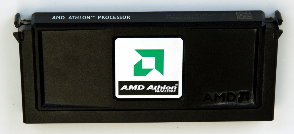 IC photo